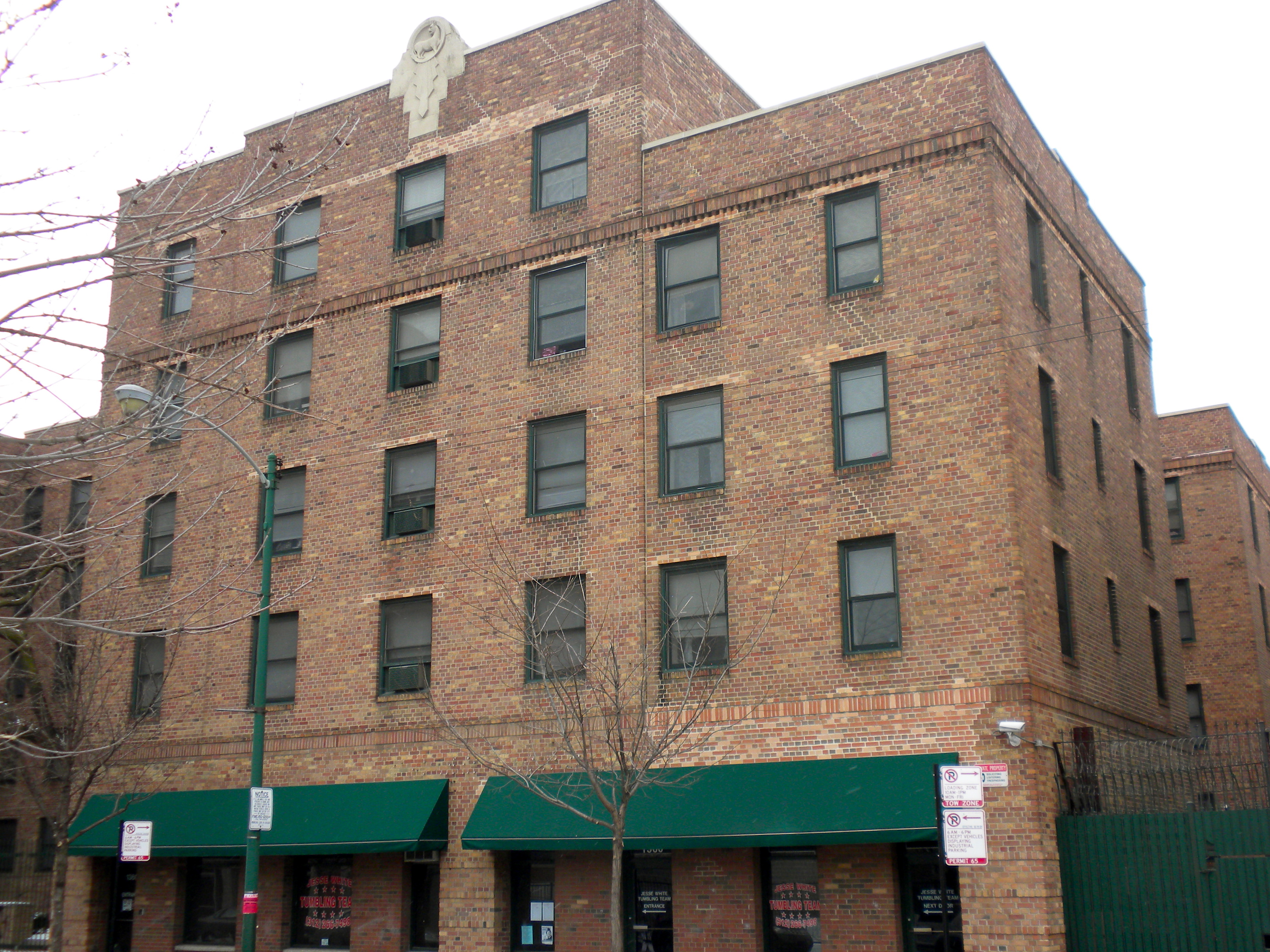 Marshall Field Garden Apartments, an early "Housing Project" (possibly non-governmental) on Chicago's near north side. Part of a NRHP Historic District since December 17, 1991. HD includes 1336-1452 N. Sedgwick Street, 1337-1453 N. Hudson Avenue, 400-424 W. Evergreen Street and 401-425 W. Blackhawk Street. This is building is likely 1360 N. Sedgwick (address not completely legible). Note the lamb sculpture at the top of building - this is on all or most of the buildings in the HD. Also note that this is the HQ of Jesse White's Tumbling Team.